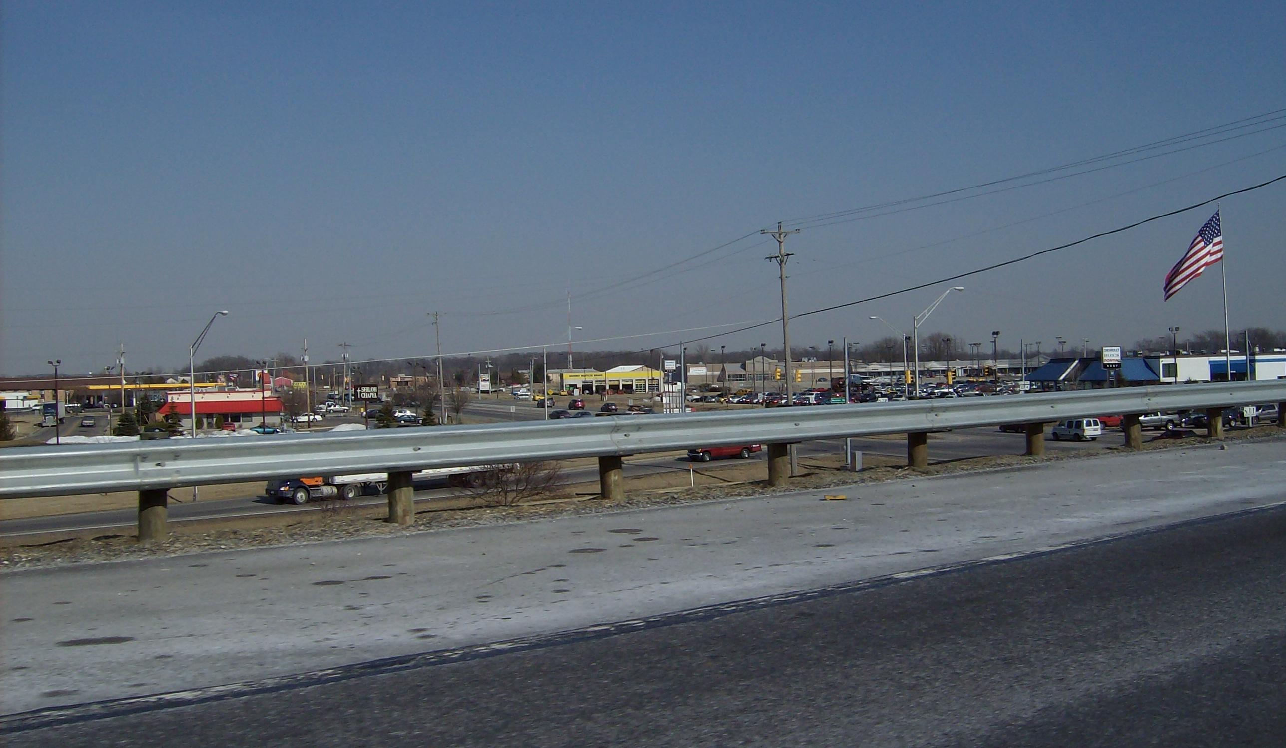 U.S. Route 33 bridge over U.S. Route 36 at Marysville, Ohio, United States